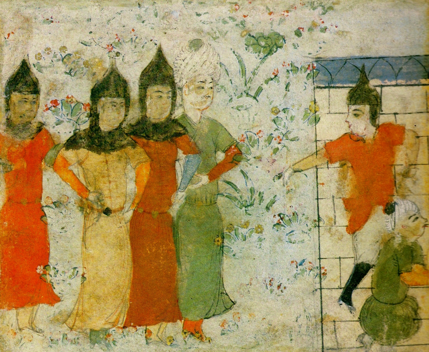 Miniature: Alexander destroys the temple of fire worshippers. Nizami Ganjavi, IskendernameAzərbaycanca: İskəndərin atəşgahları dağıtdırması.